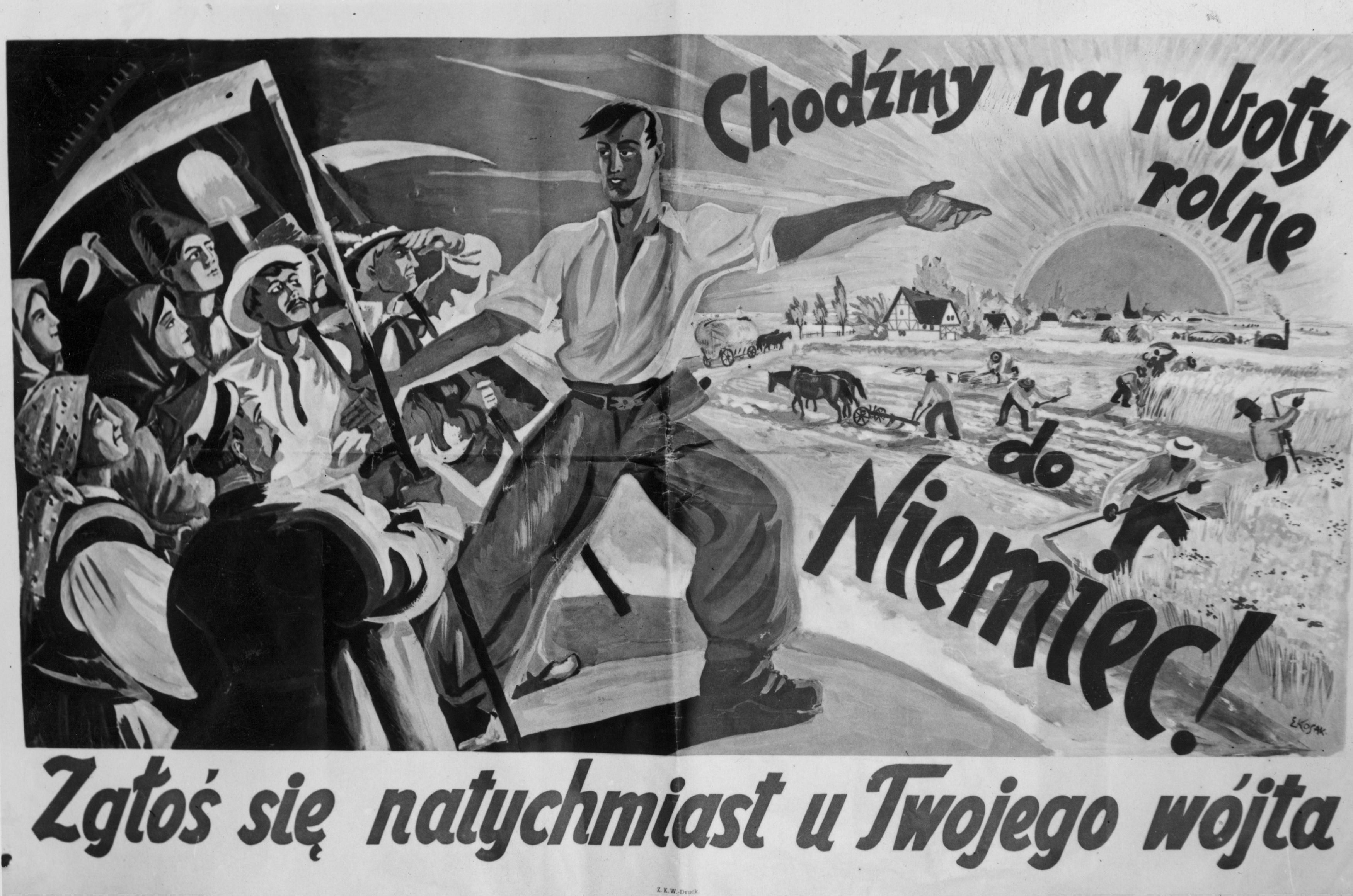 German Propaganda Poster: "Let's do agricultural work in Germany. Report immediately to your Vogt" from recruiting post at Nowy Swiat Street.